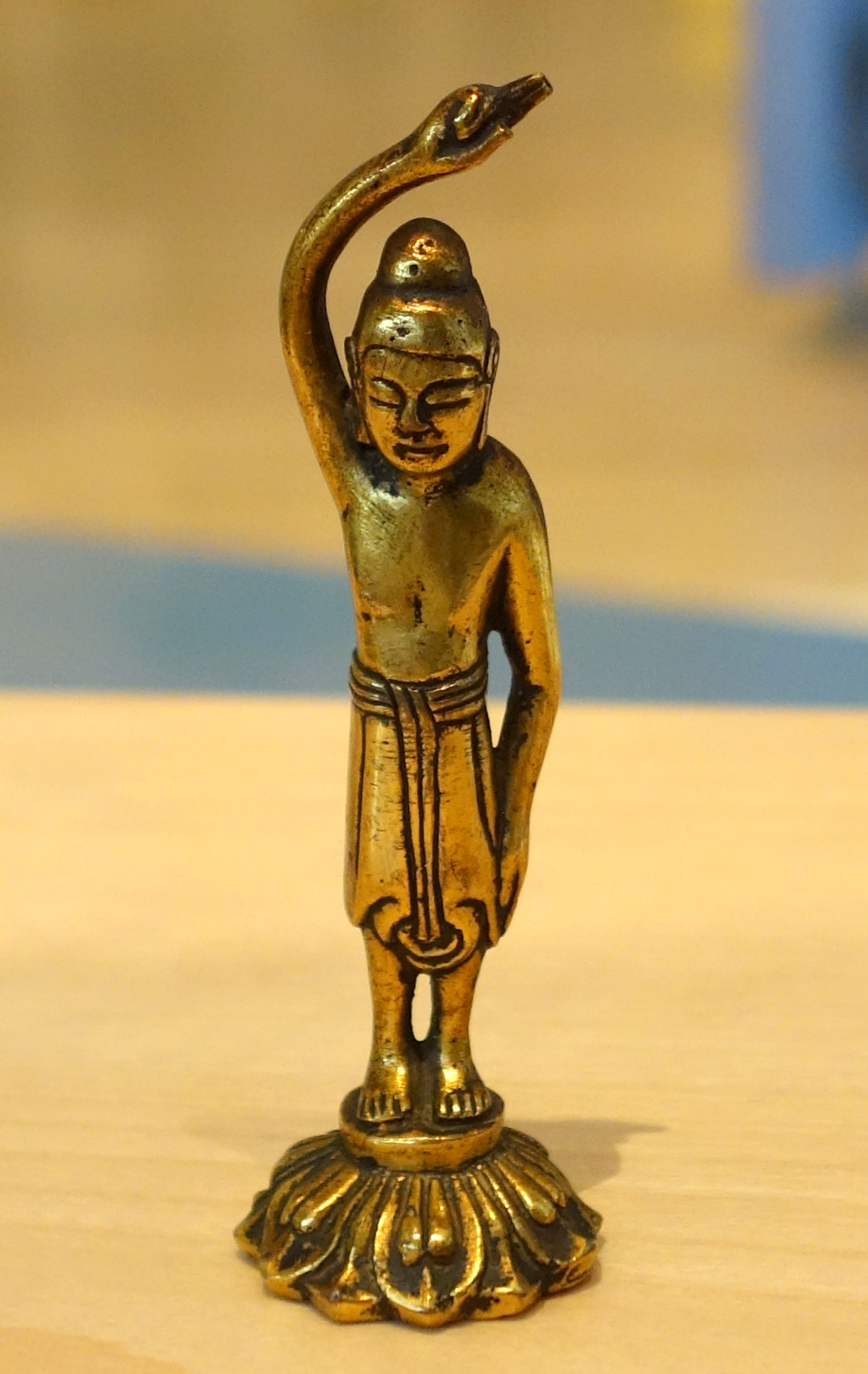 Exhibit in the Royal Ontario Museum, Toronto, Ontario, Canada. This work is old enough so that it is in the public domain.